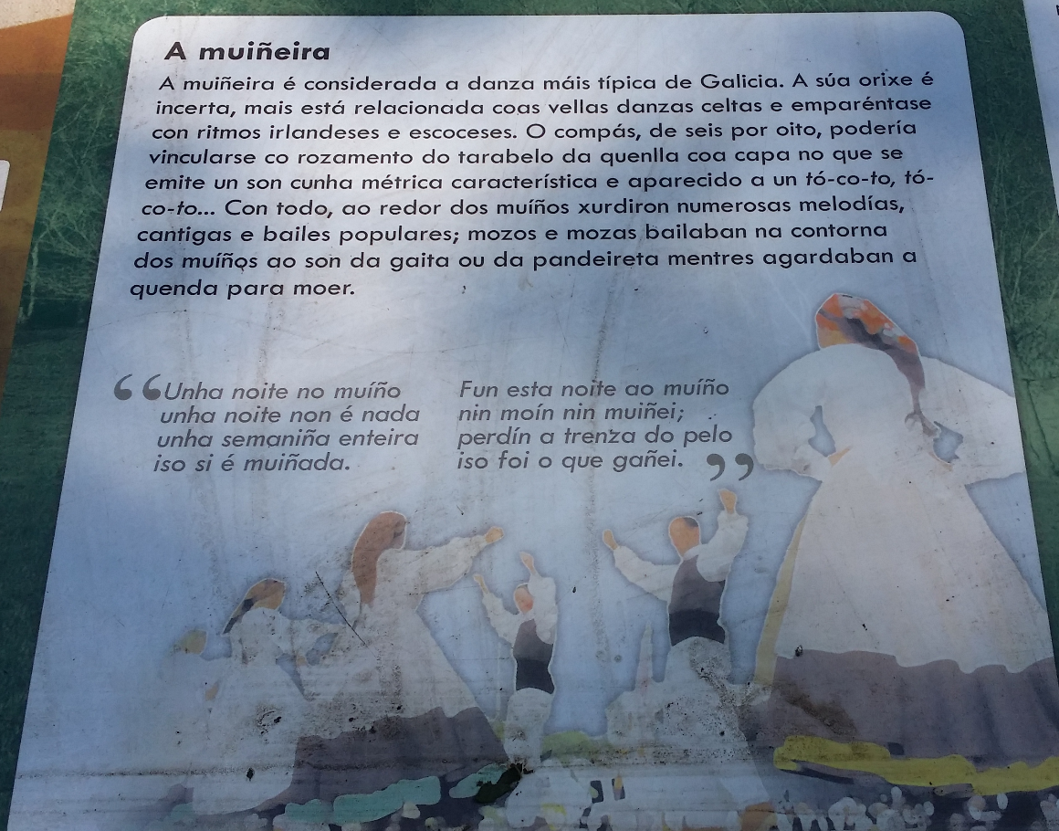 Explanatory poster on the path of the sisalde river